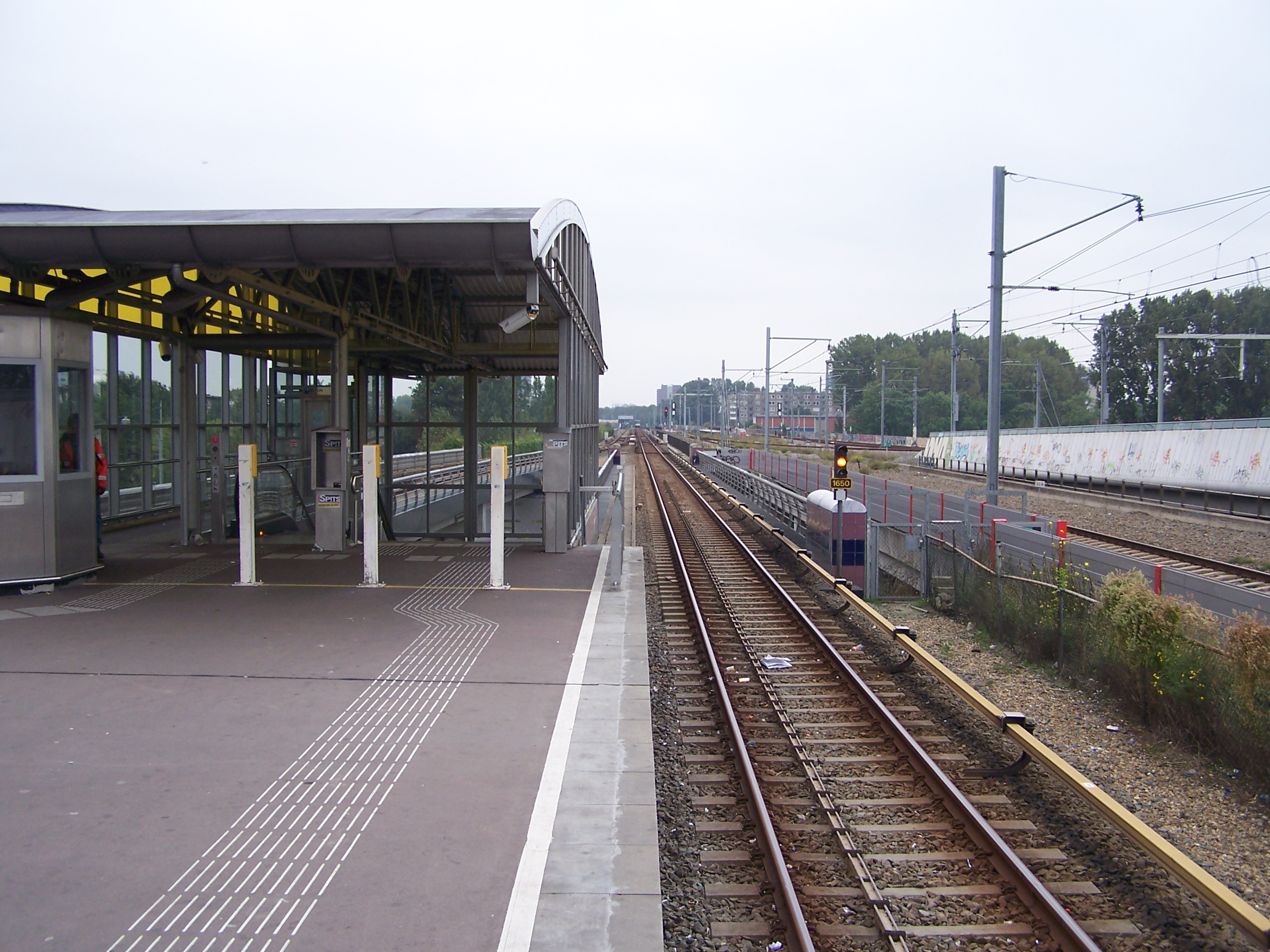 Author: Mig de Jong This picture portrays the Amsterdam metro station De Vlugtlaan.